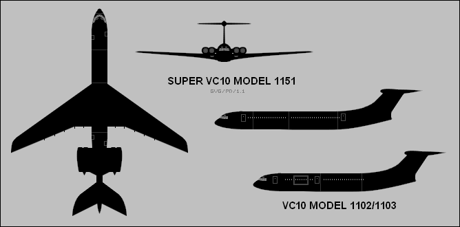 Vickers VC10 Silhouette Drawing